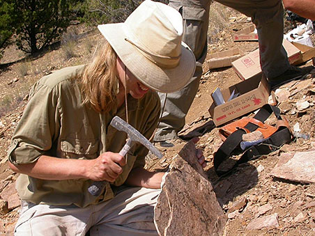 Paleontologist Matt Smith at work, John Day Fossil Beds National Monument. (NPS Photo).